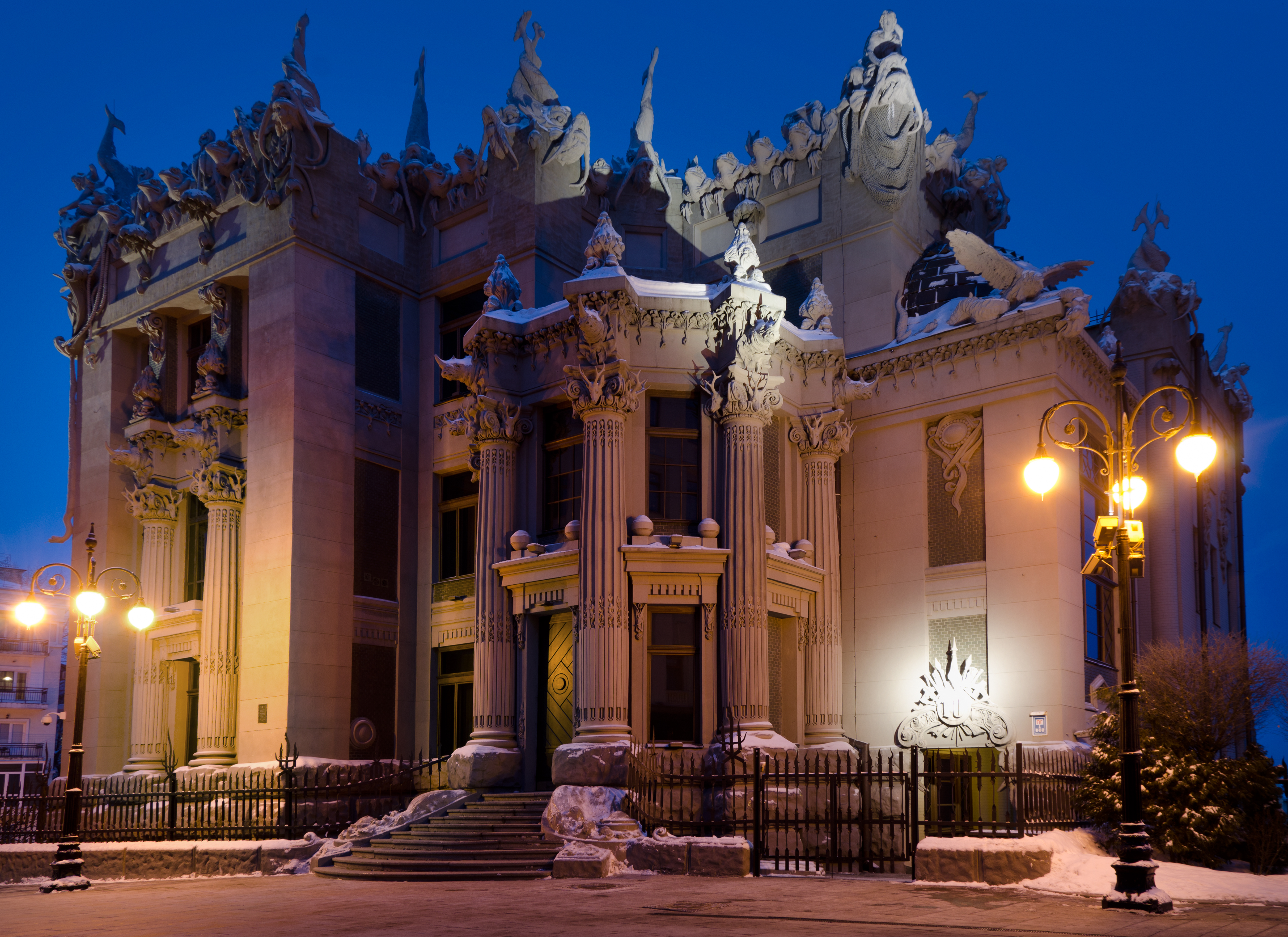 House with Chimaeras, 1901-1903, architecture and urban development monument of national significance №906. Kyiv